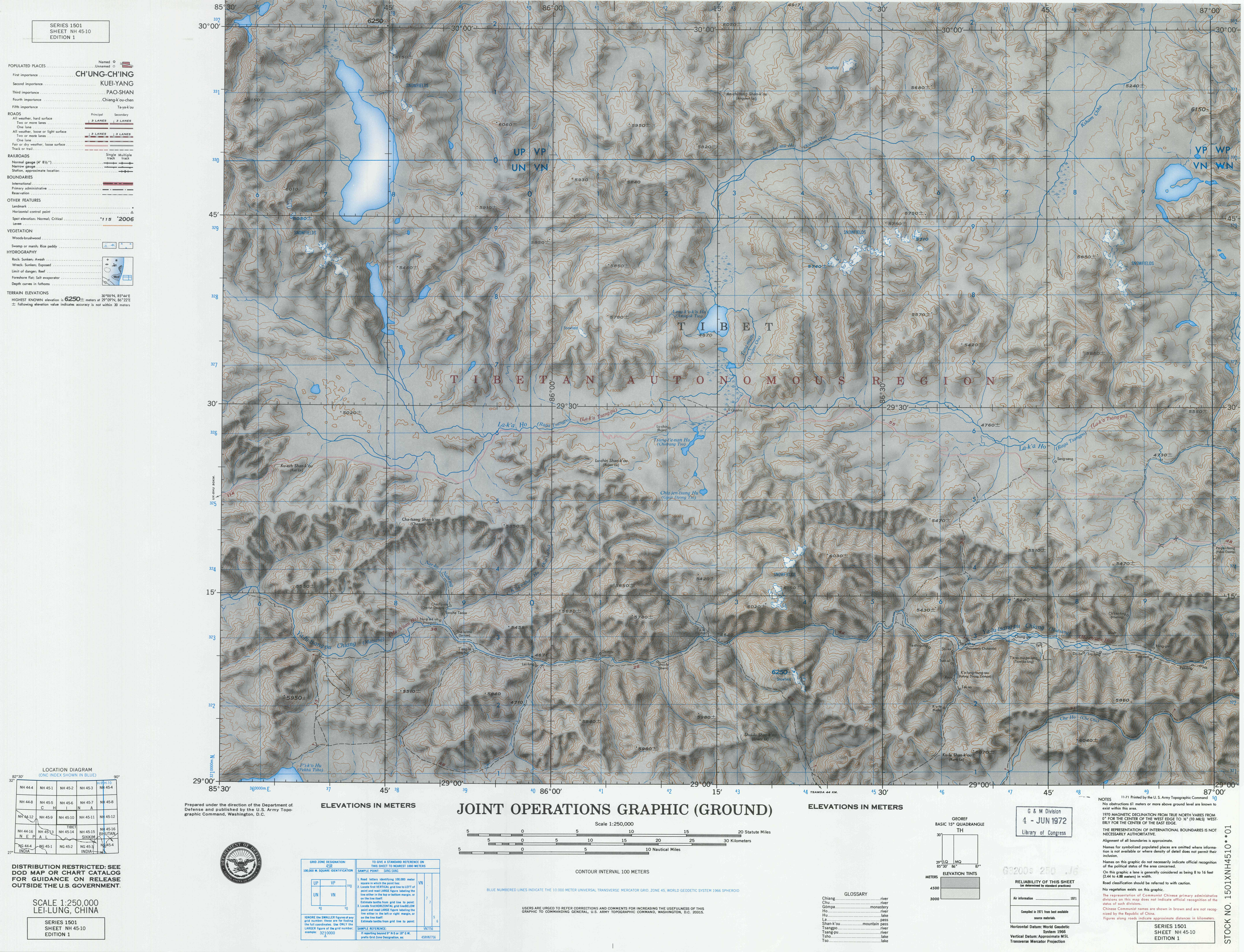 NH-45-10 Leilung China